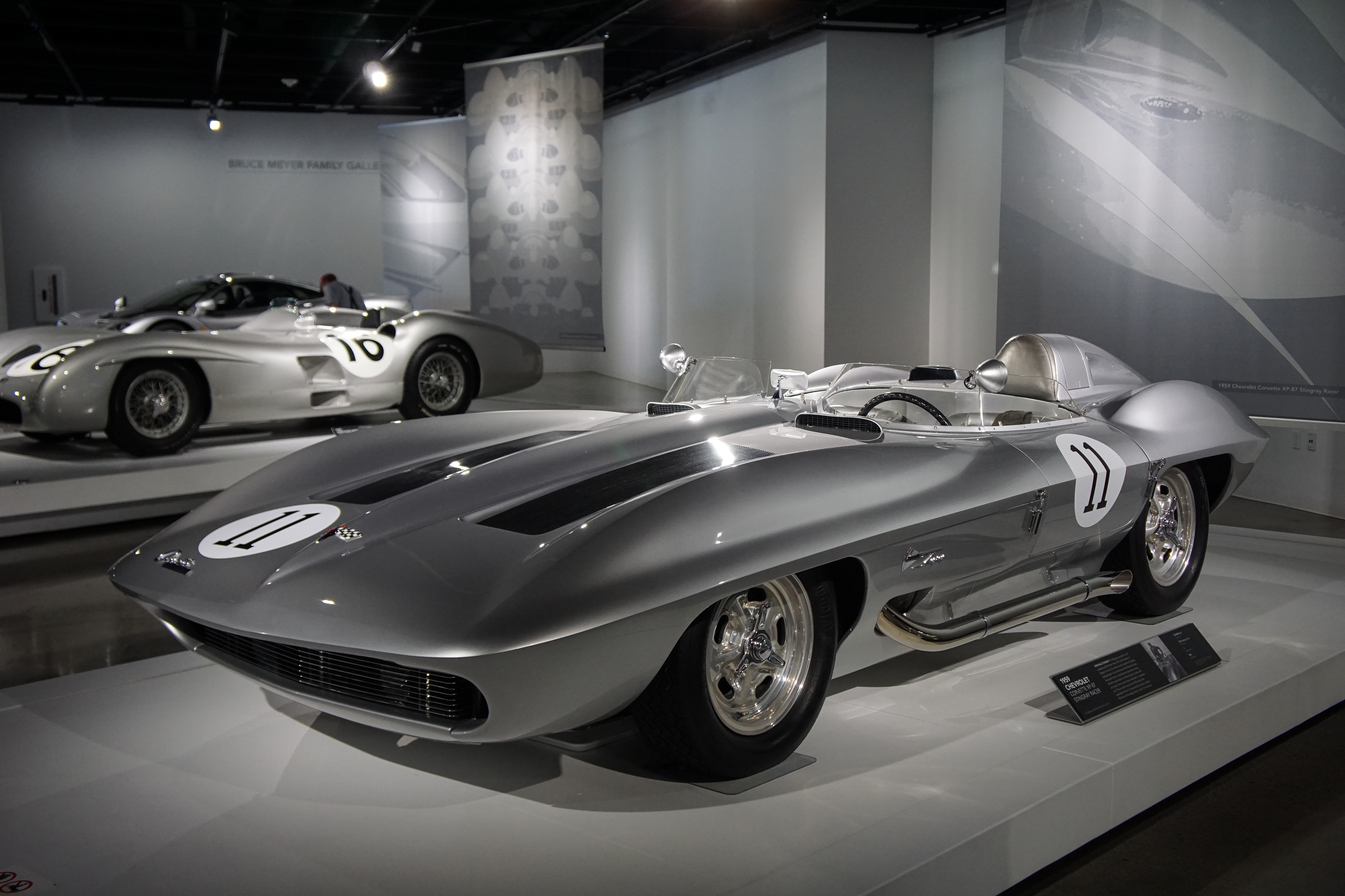 Petersen Automobile Museum Wilshire Blvd Los Angeles California